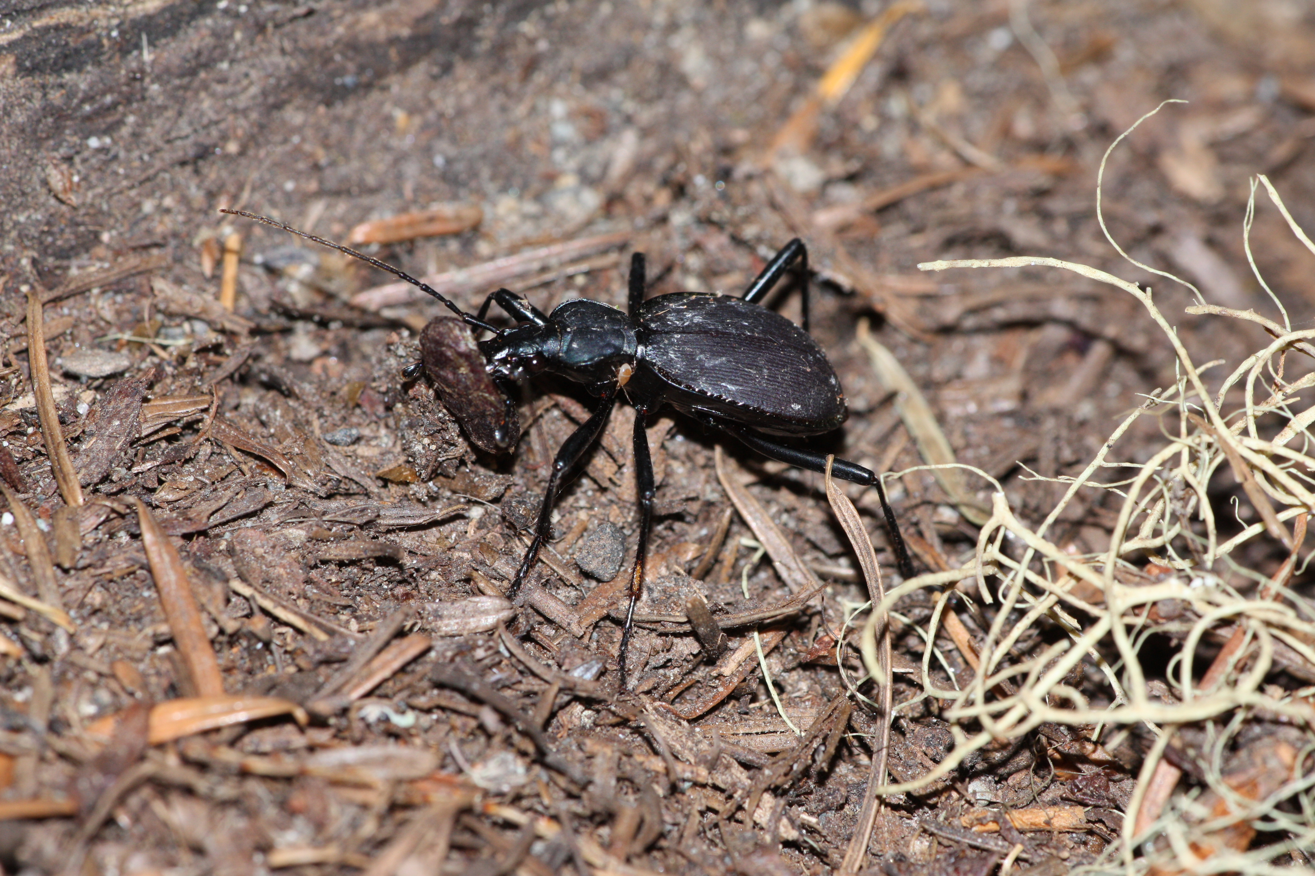 Snail Eating Ground Beetle